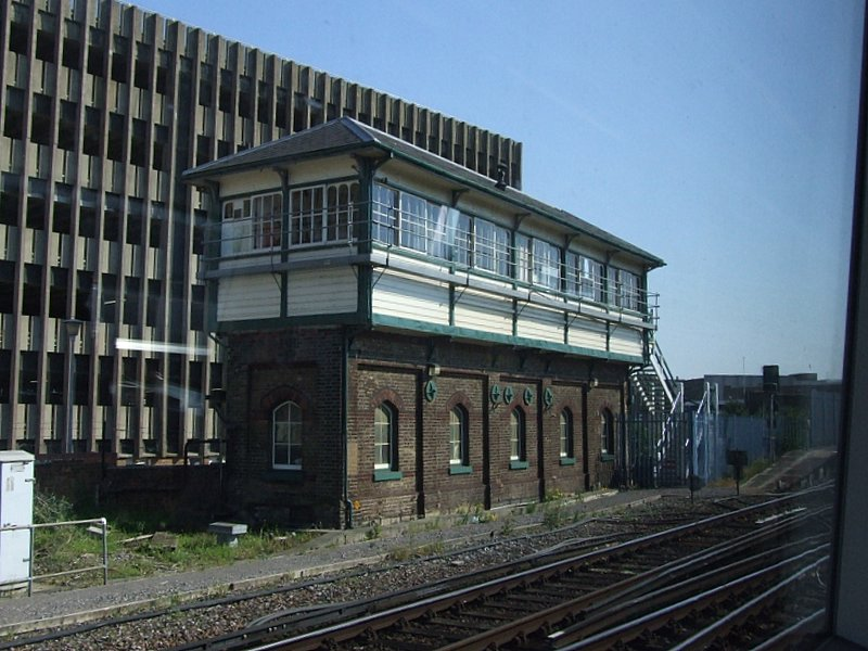 Signal box at Eastbourne station. Once the resignalling of this line is complete boxes like this will be a thing of the past.